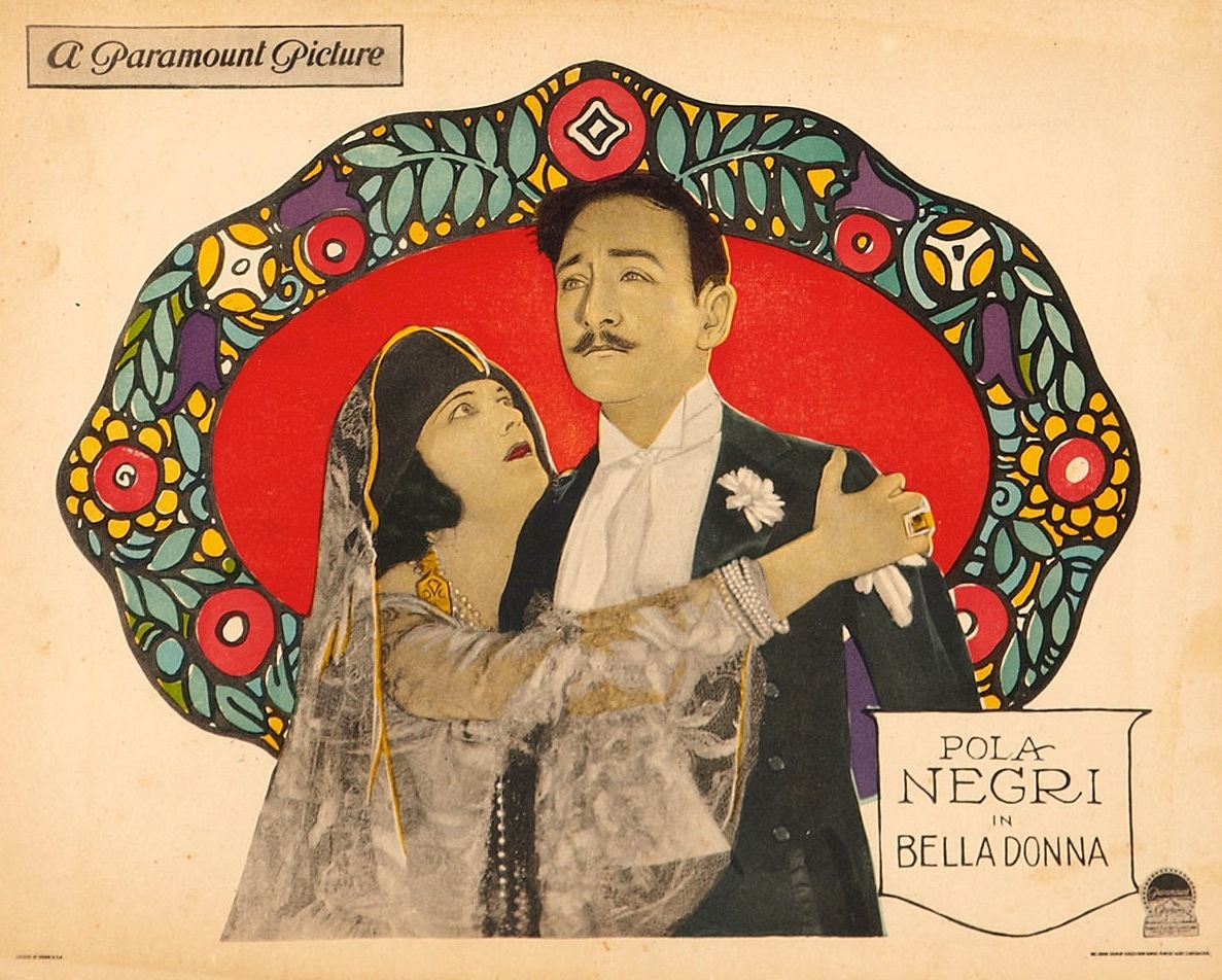 Bella Donna (1923) is a silent film produced by Famous Players-Lasky and released by Paramount Pictures. This is a lobby card for the film.